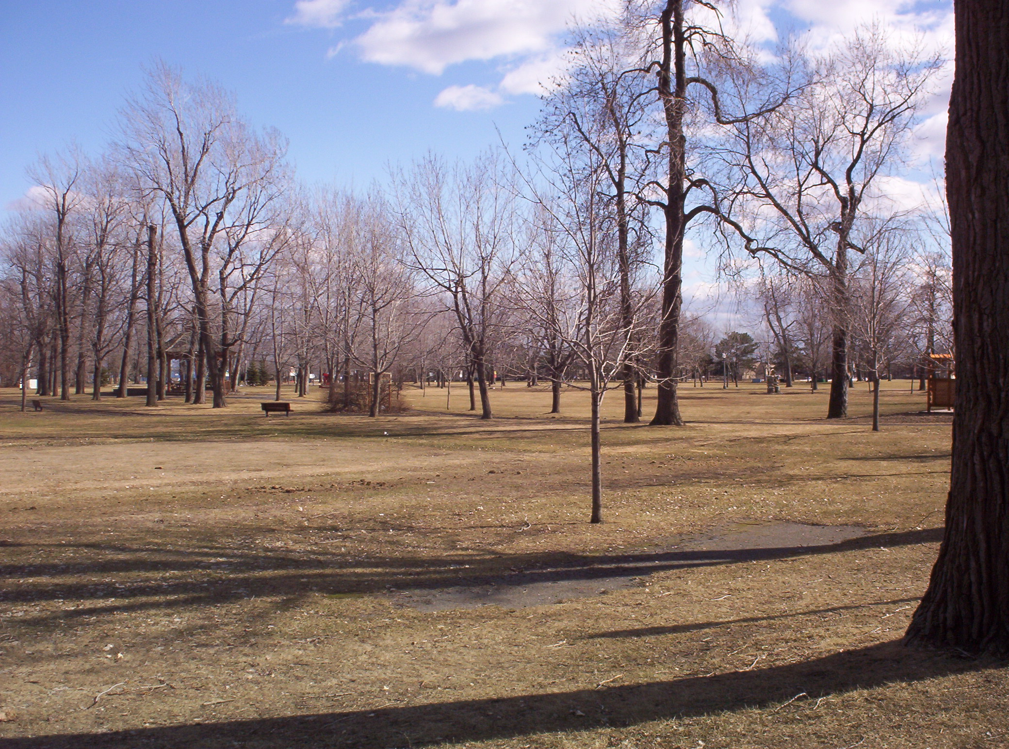 Summary: The gardens of the Douglas Hospital in Montreal (Verdun), Québec Author: Colocho Date: March 26th, 2006